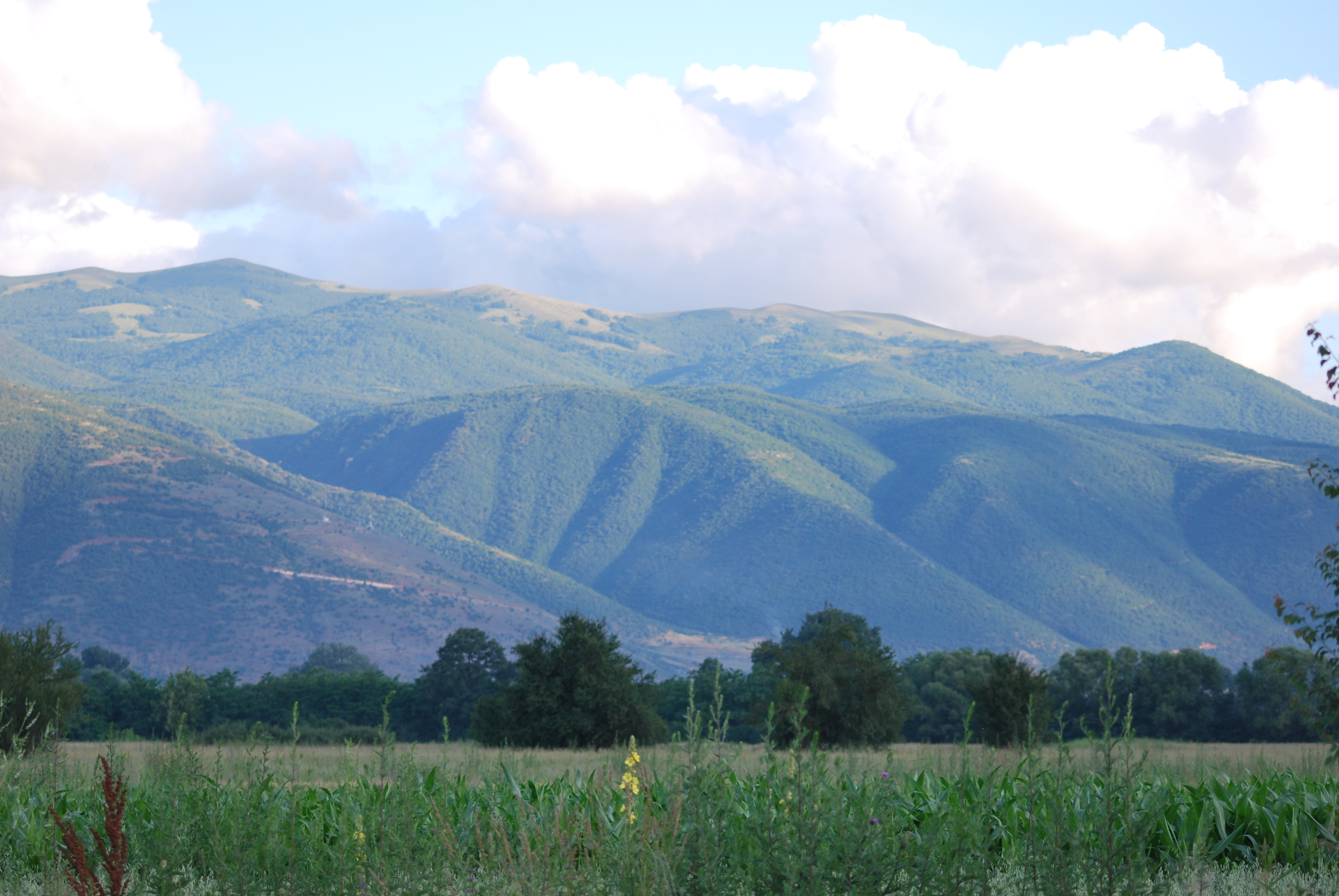 Suva Gora, a mountain in Macedonia